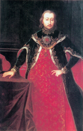 Baron and Count Antal I Grassalkovich de Gyarak (1694–1771), a Hungarian noble man, follower of Queen Maria Theresia.